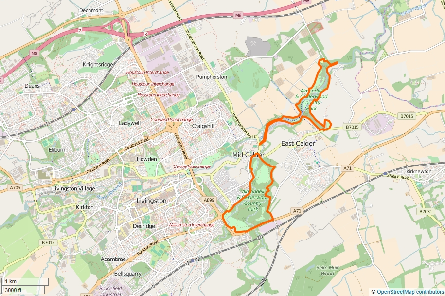 Map of the Almondell & Calderwood Country Park